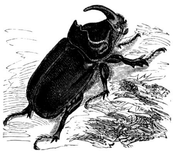 Oryctes nasicornis